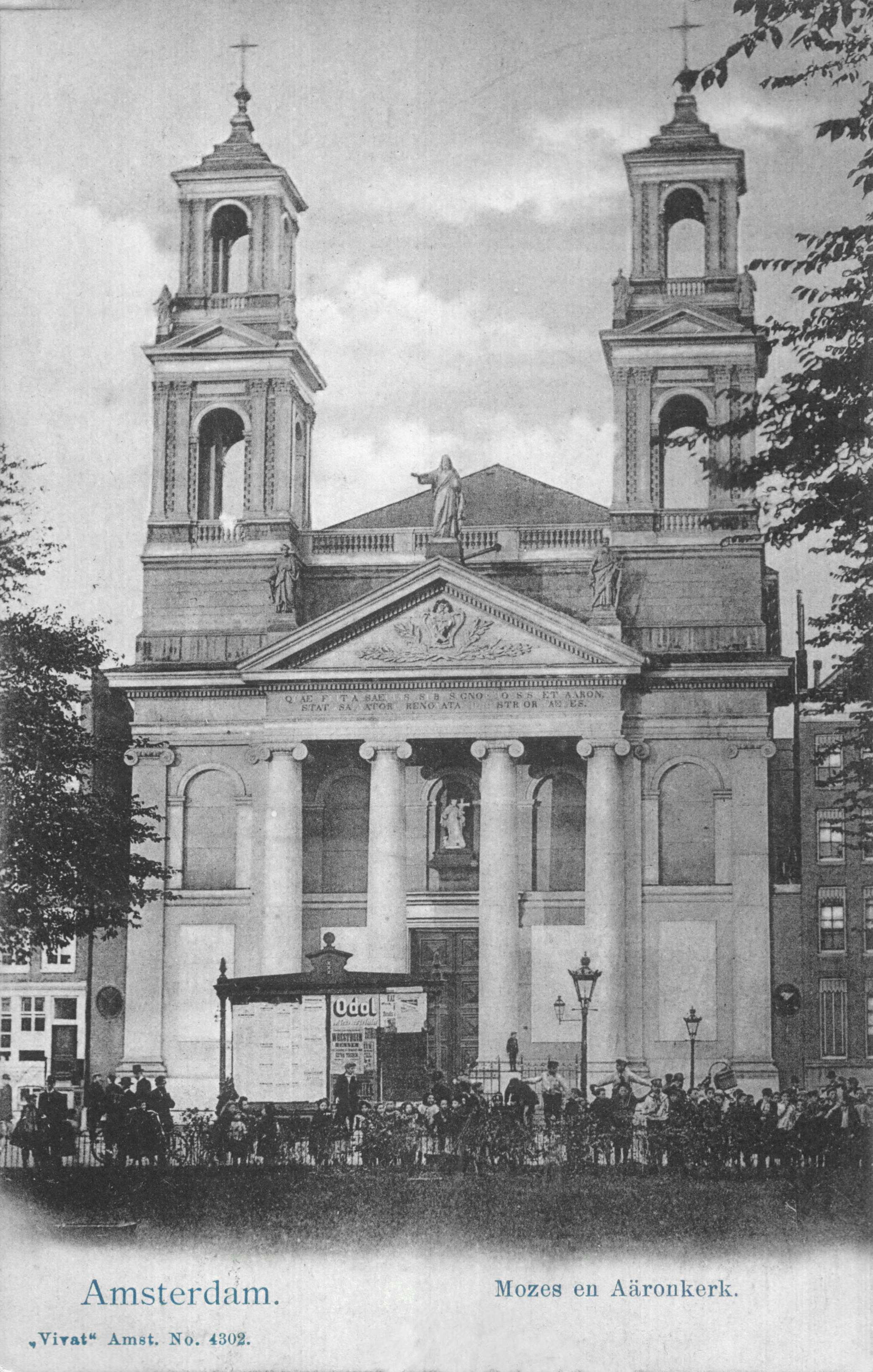 Postcard of the Moses and Aron church (Mozes en Aaronkerk), Amsterdam, Netherlands. The stamp on the backside of the postcard shows the year 1902, so the date of the postcard itself might be a bit older.